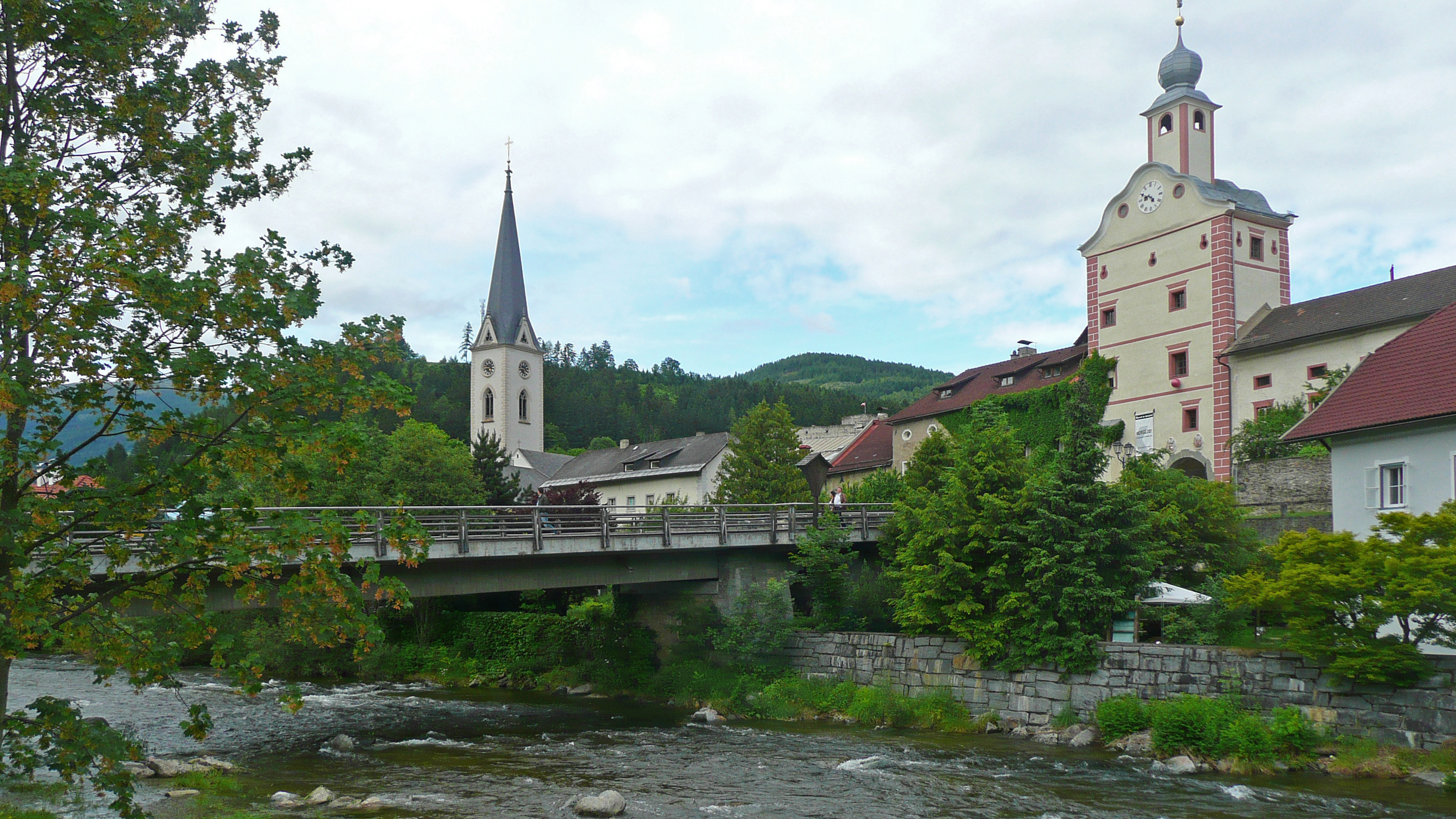 Bridge over the Malta in Gmünd (Carinthia, Austria)